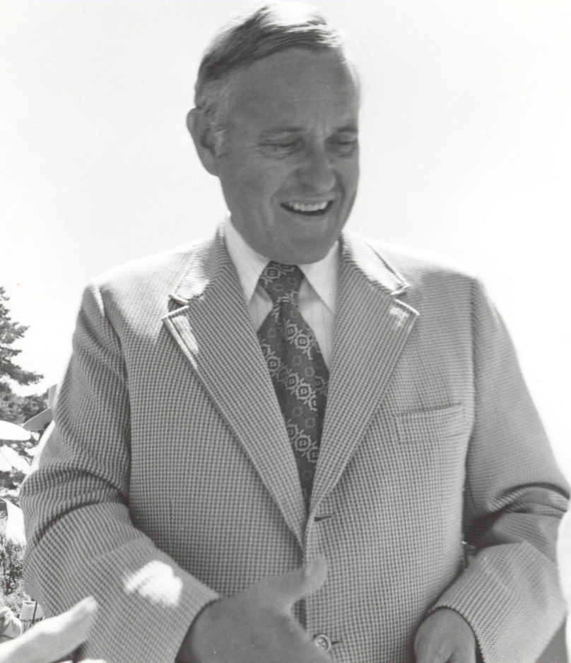 Tom McCall Former Governor of Oregon at the Oregon Dunes on the Siuslaw National Forest Historic Photos